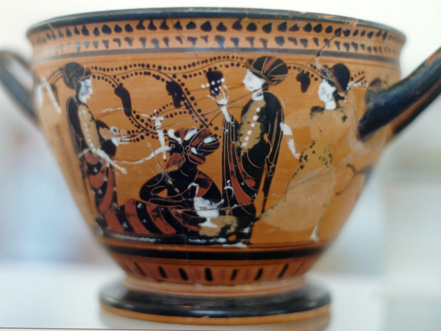 Black-figure skyphos. Dionysus with a turban among female musicians. Ritsona, 520-500 BC. Archaeological Museum of Thebes.